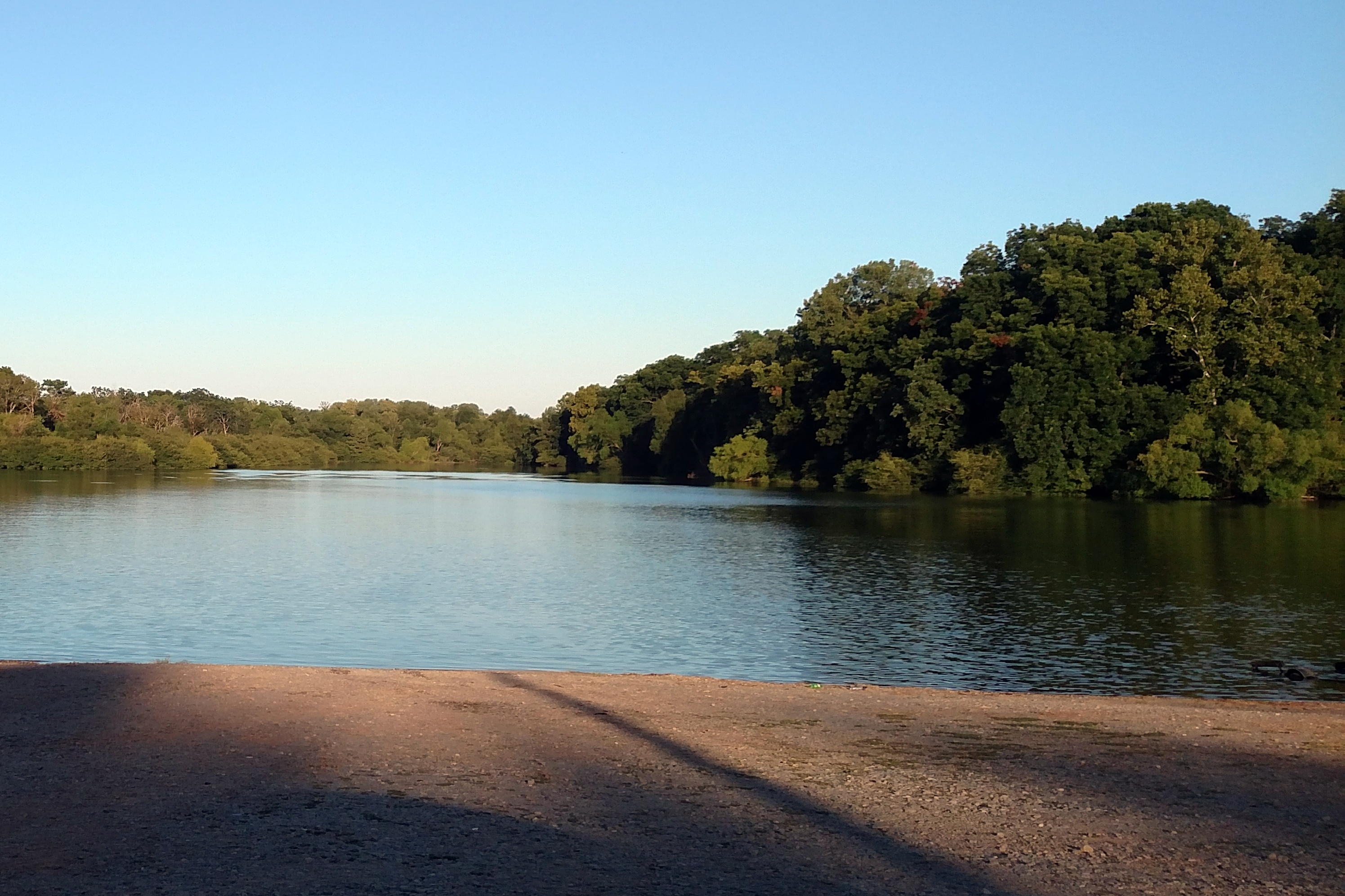 "The Basin", a terminated oxbow of the White River at DeValls Bluff, AR